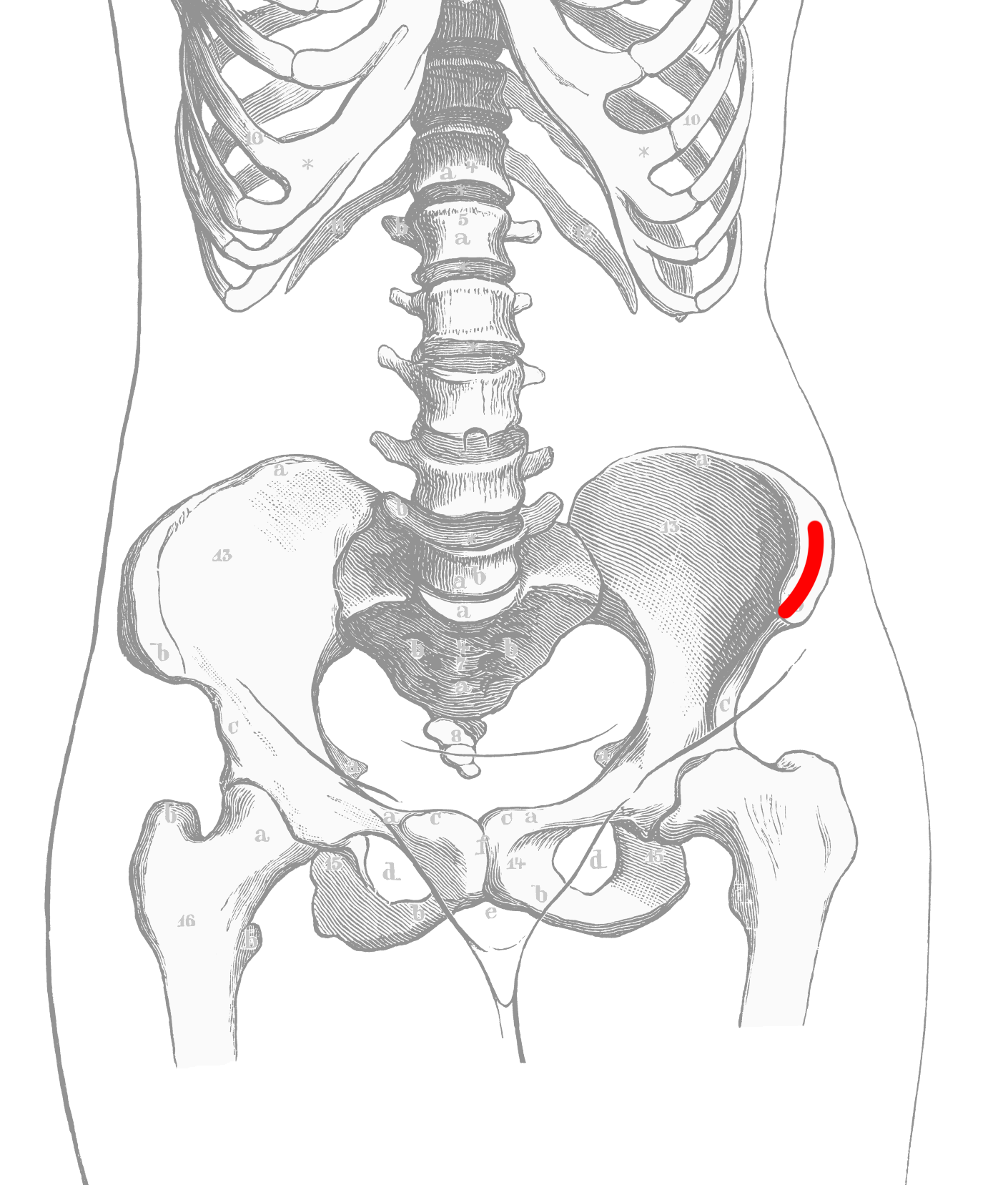 Bone graft harvested from the anterior iliac crest is accessed from an incision in the location shown on the left hip